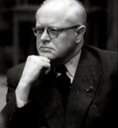 Carl Romme in 1951